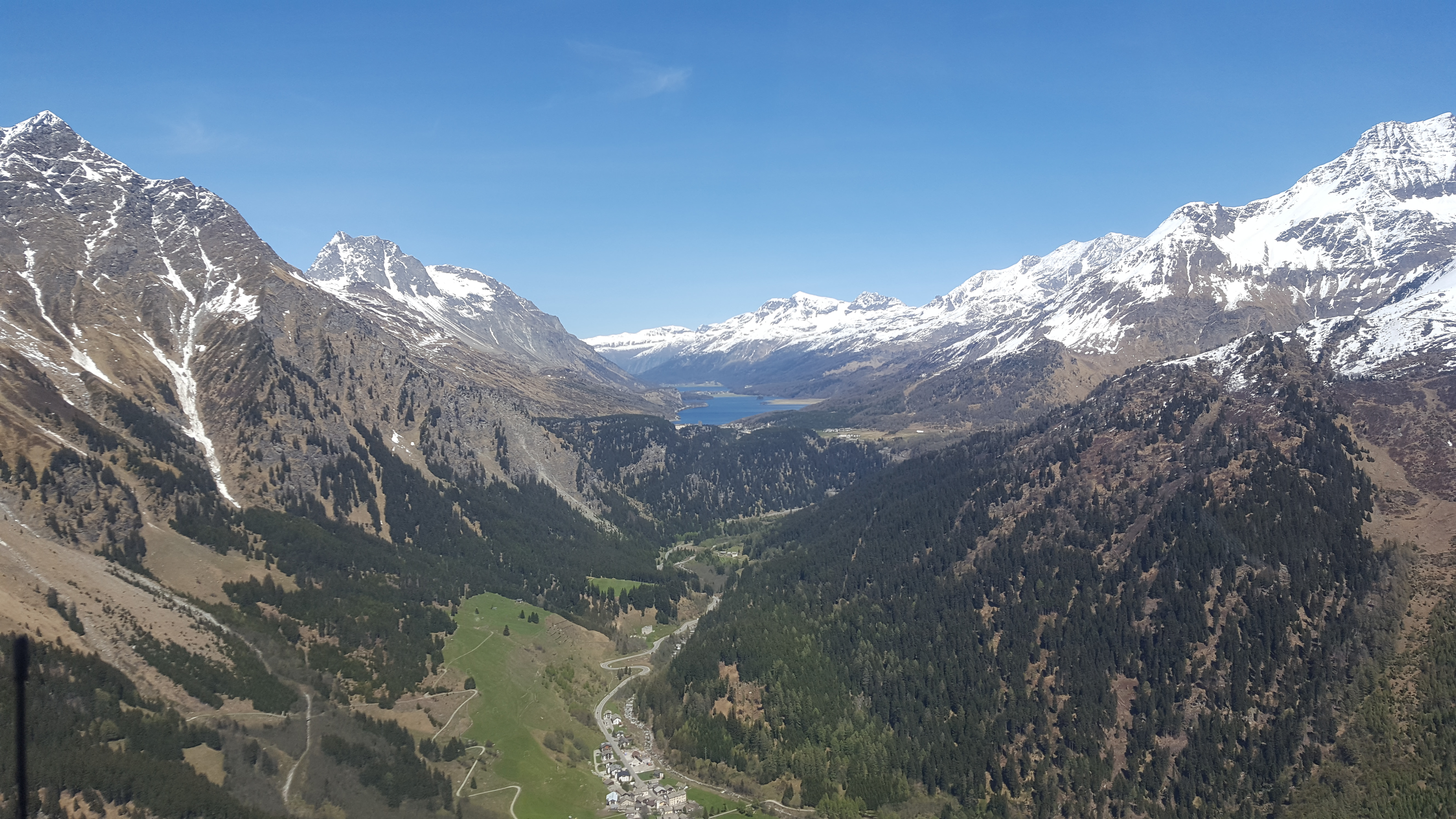 Malojapass, picture taken from a helicotper aboe Val Bregaglia (Grison, Switzerland)